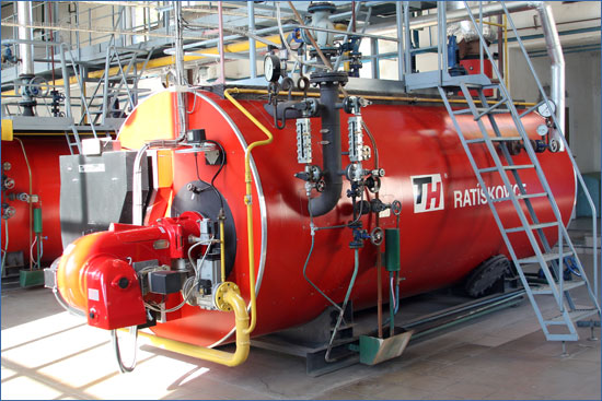 New machinery equipment TM "LIMO" (JSC "Lviv Freezer Factory")